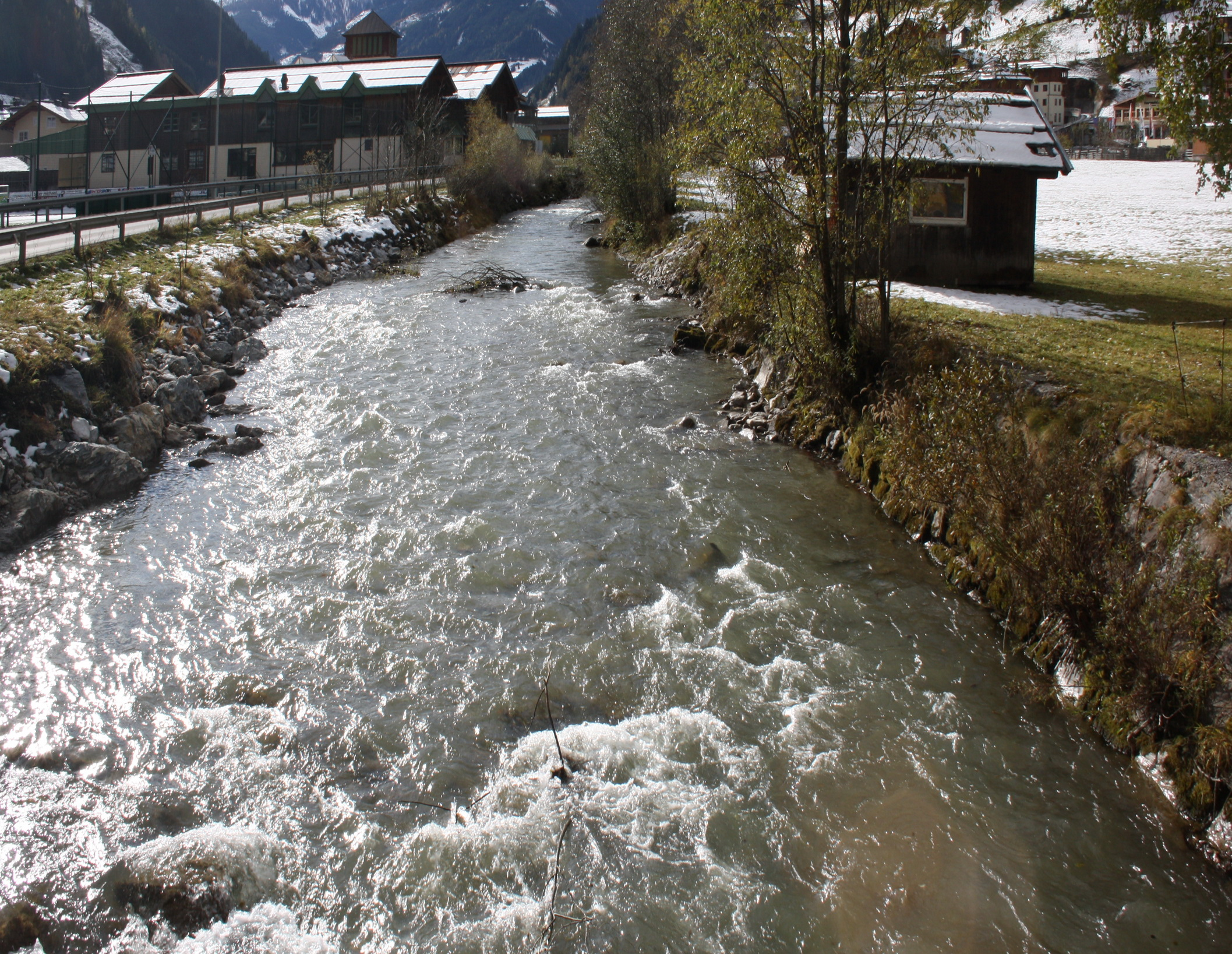 Großarler Ache